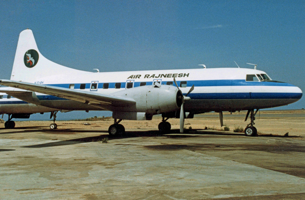 Convair 240 N314H of Air Rajneesh in 1987